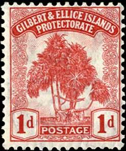 Gilbert and Ellice Islands: 1911 (Mar.) Pandanus Pine: 1d. carmine stamp.